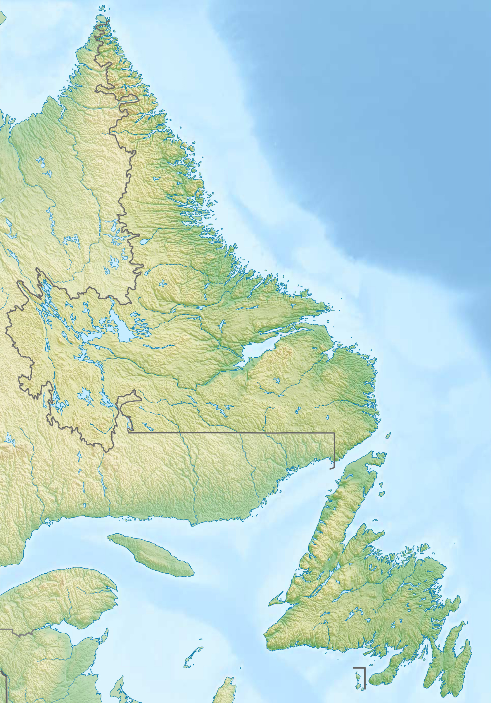 Physical location map of Newfoundland and Labrador, Canada Equirectangular projection, N/S stretching 160 %. Geographic limits of the map: N: 60.8° N S: 46.5° N W: 68.0° W E: 52.0° W